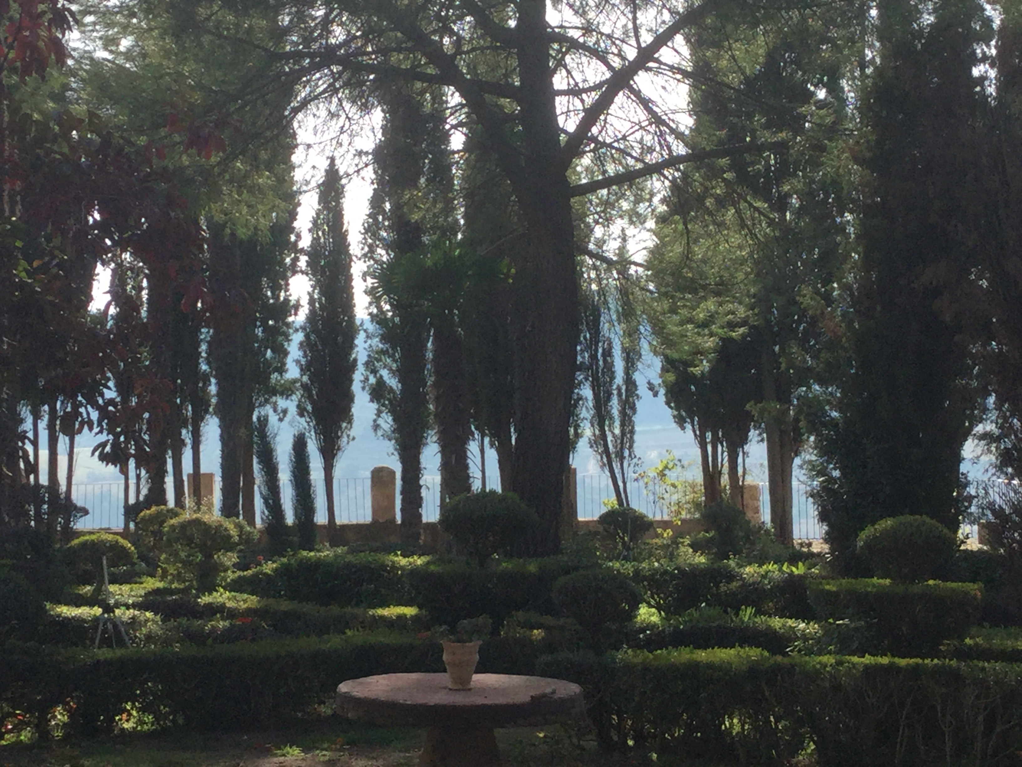 Jardins de la fabrique